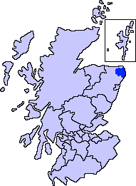 Aberdeenshire unitary council - Buchan Area